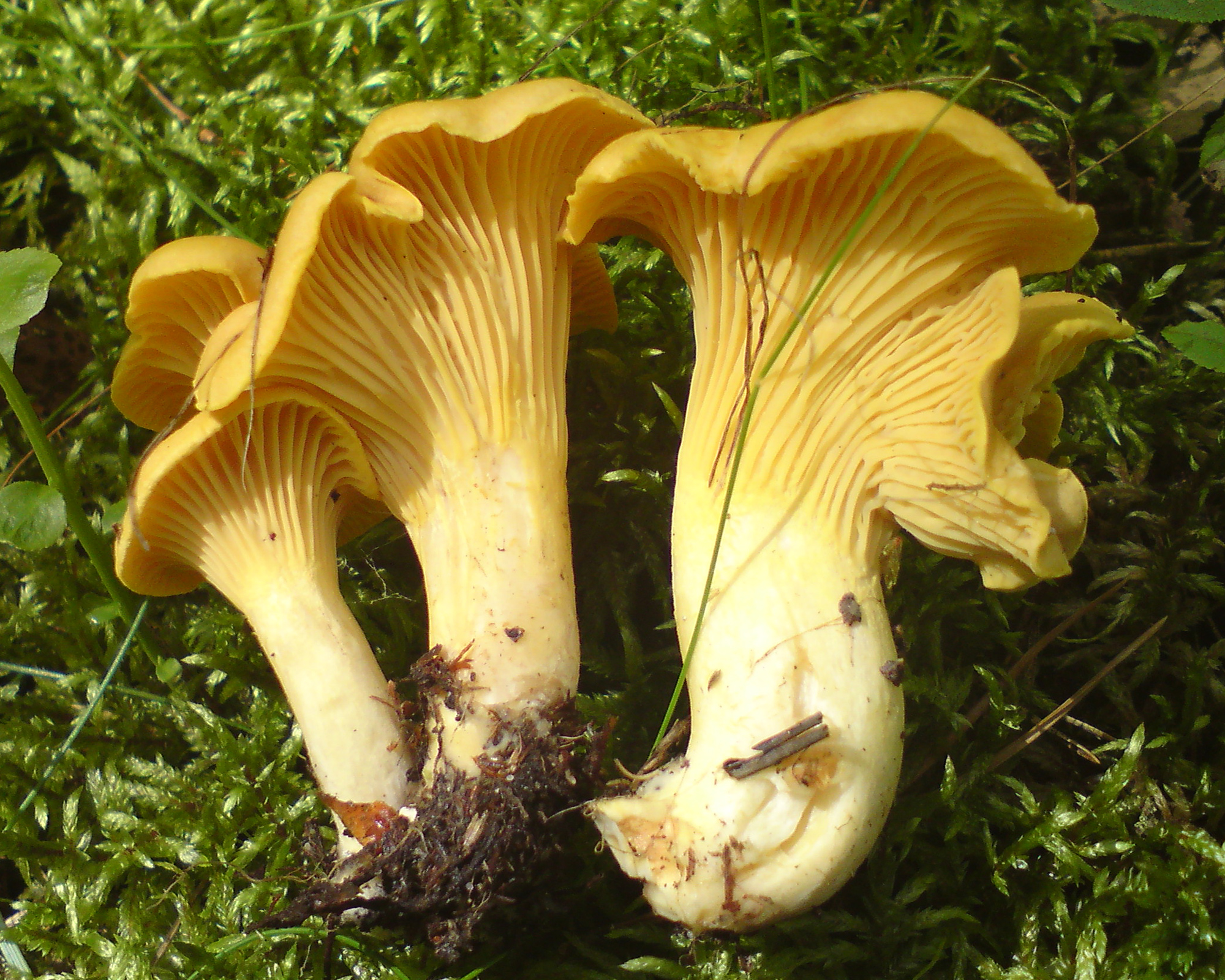 Cantharellus cibarius in pine forest.